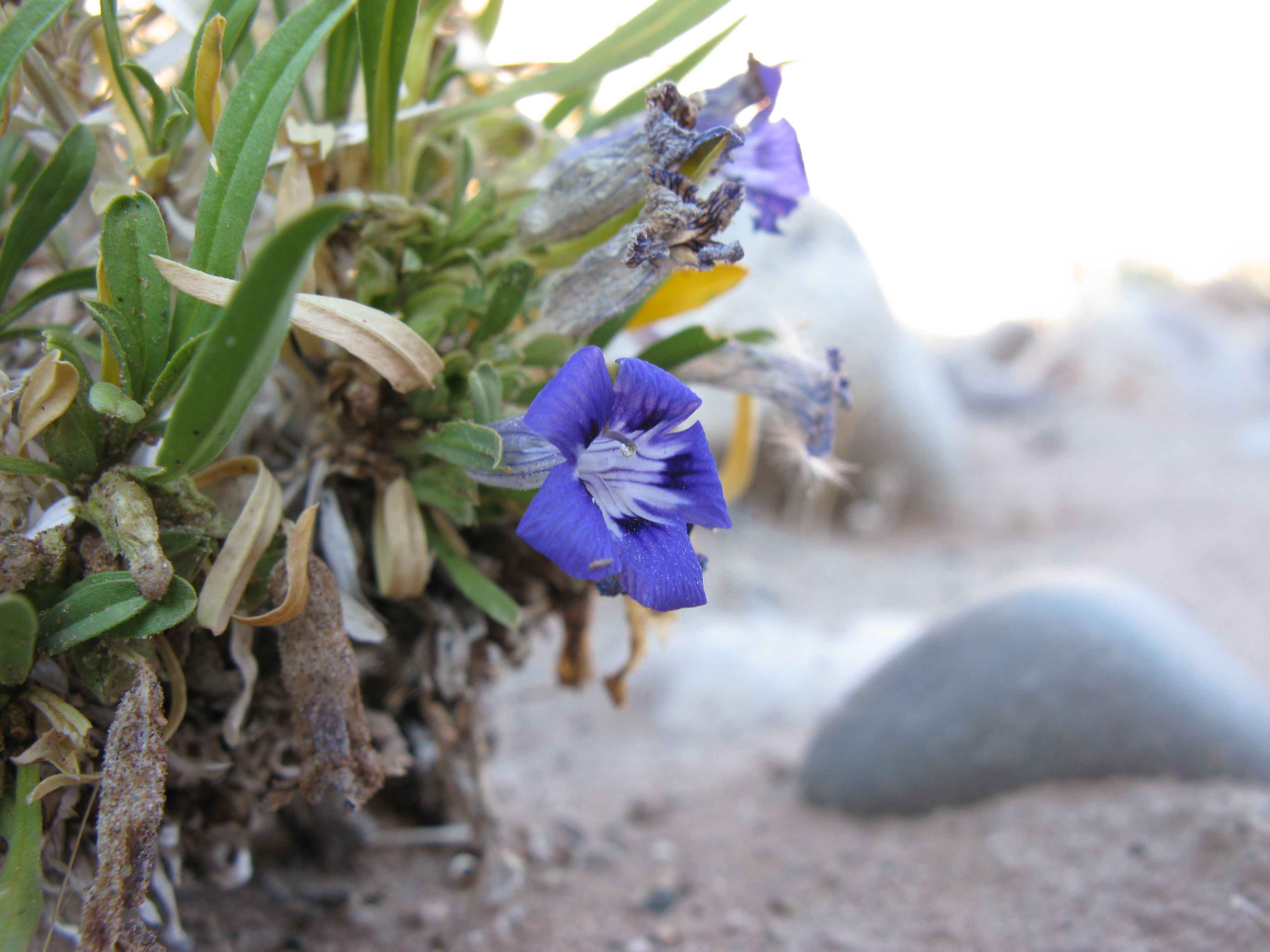 Aptosimum arenarium Engl. One of the so-called Karoo Violets. Growing in sand on the river bank in the Fish River Canyon Namibia.